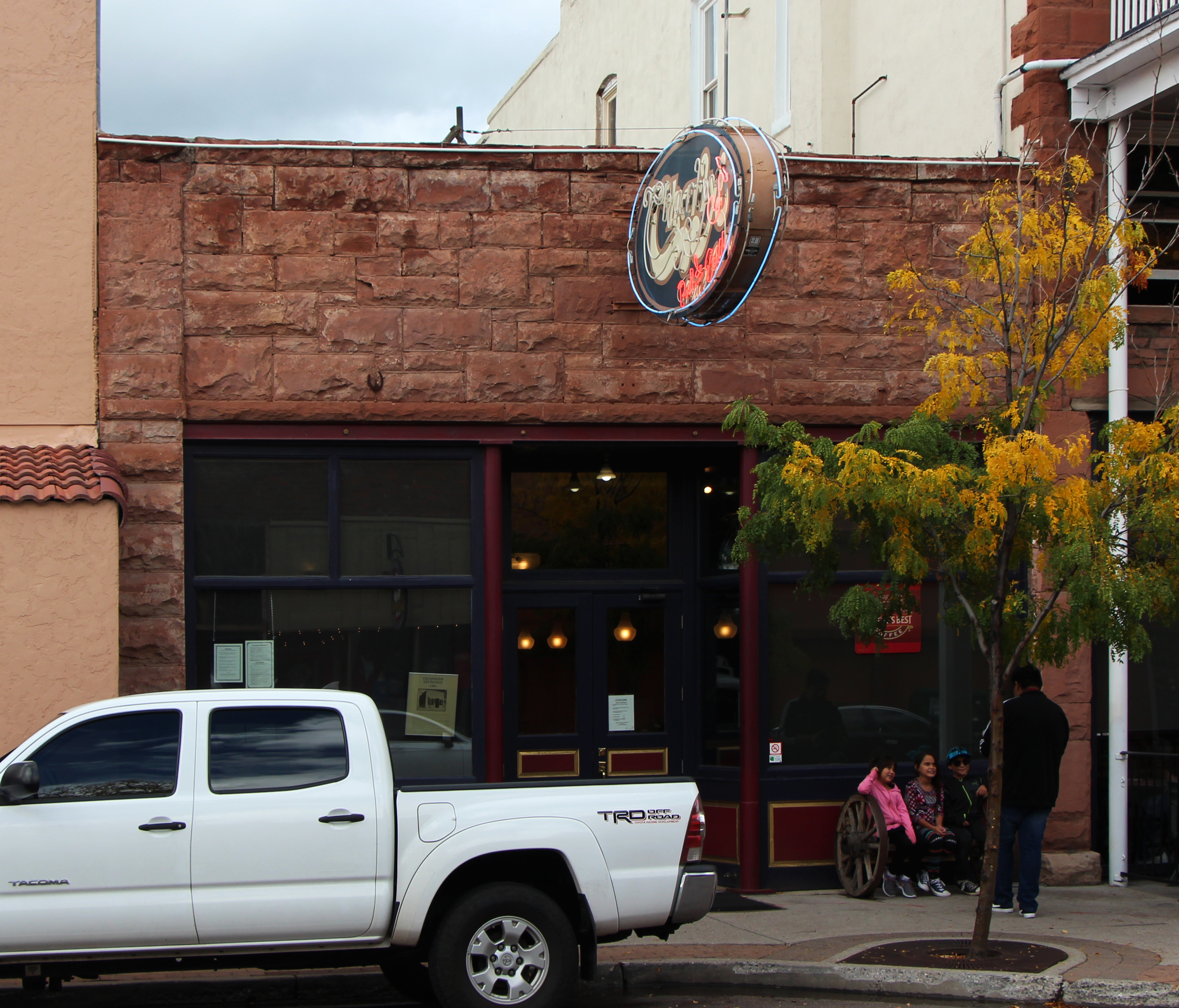 Flagstaff Telephone Exchange, 23 N Leroux St, Flagstaff, AZ